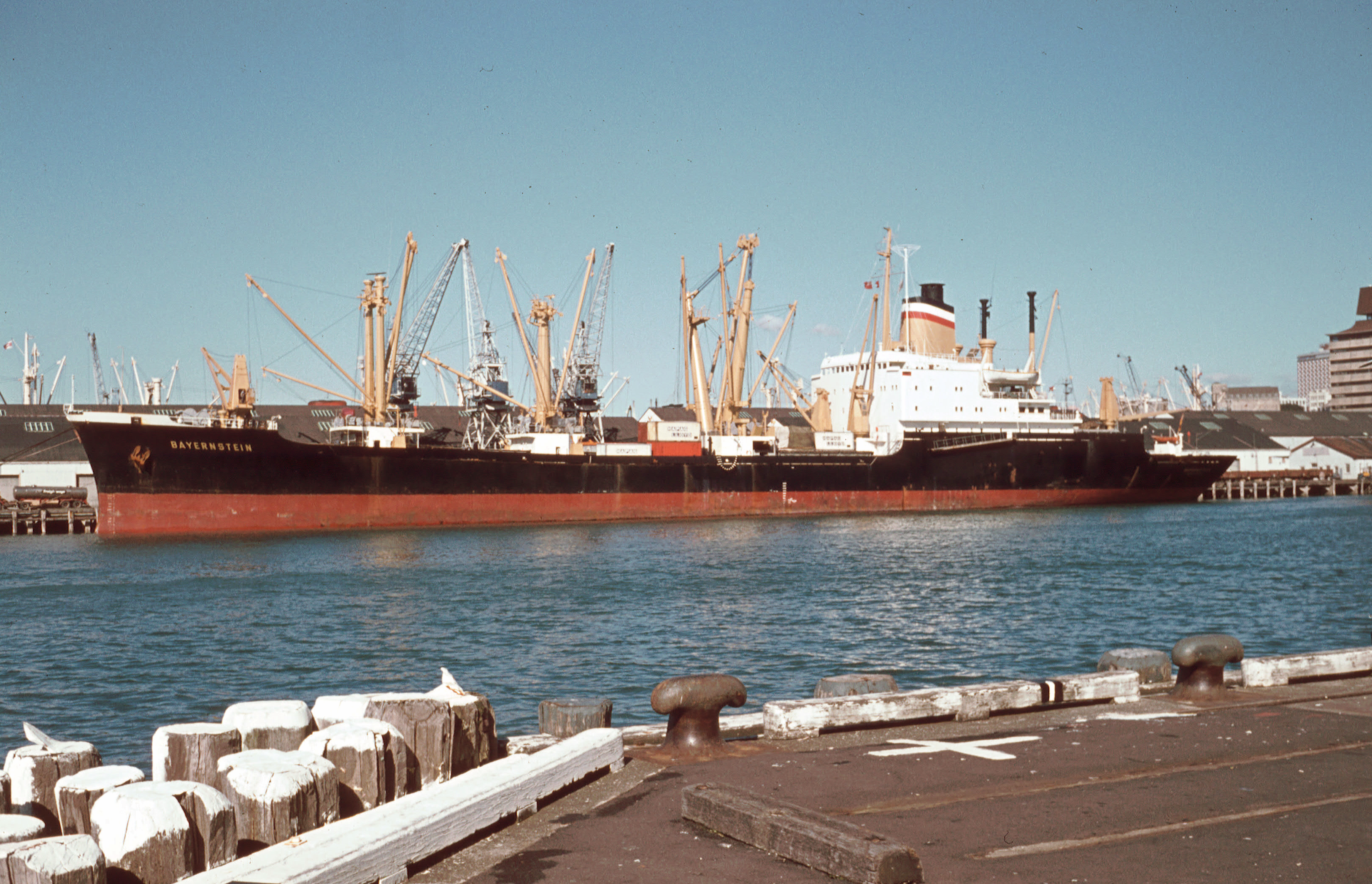 Hapag-Lloyd Cargo ship Bayernstein 1973 in the port of Auckland, New Zealand